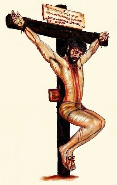 Cruz patibular